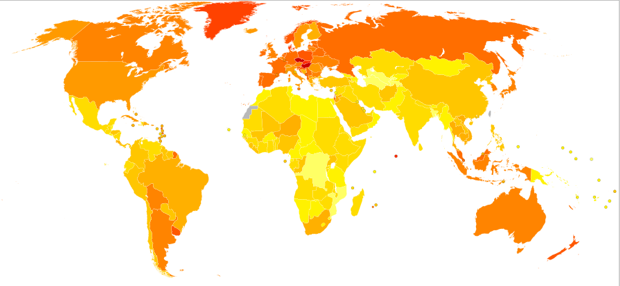 Colon and rectum cancers world map - Death - WHO2004small